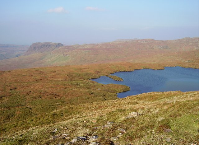 Loch a' Bhac-glais Looking down on the loch from Beinn Bhreac. Preshal More in the background.